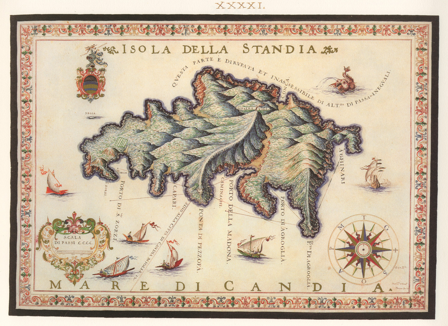 Isola della Standia (present day Dia) - Francesco Basilicata - 1618